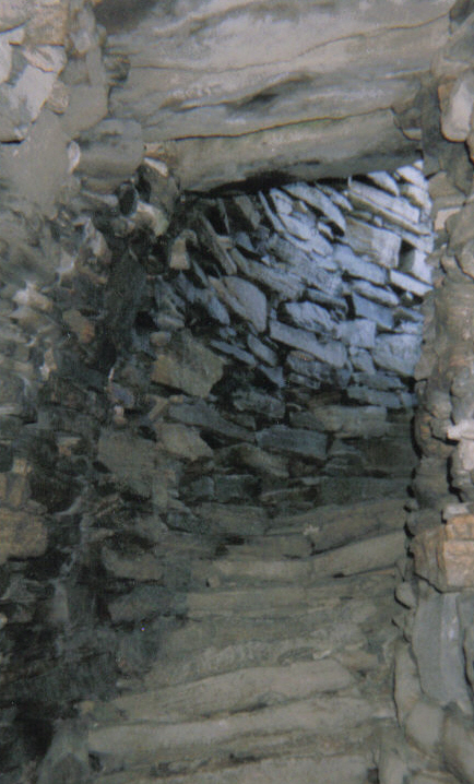 Carloway Broch, or Dùn Charlabhaigh, is an ancient fortress located at Carlabhagh, Isle of Lewis. It bears the form of a round tower with hollow walls. Inside its walls are the remains of a spiralling staircase.